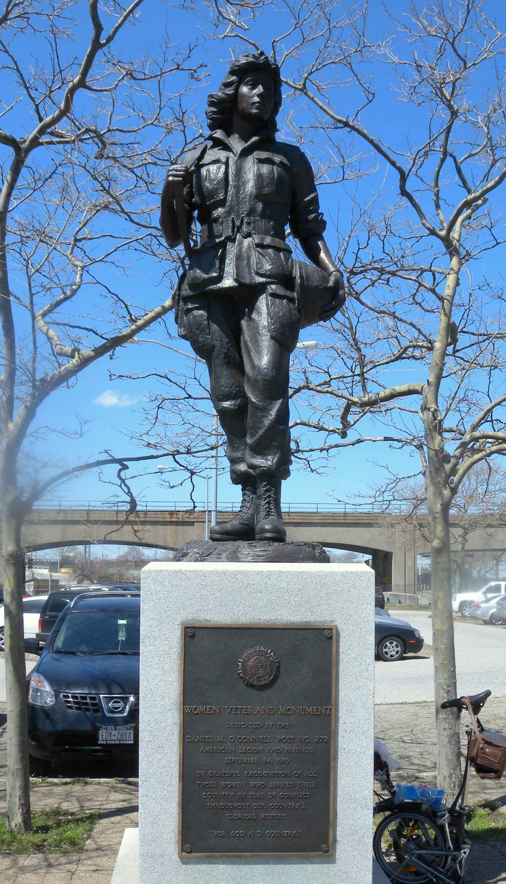 Looking north from Rockaway Beach Blvd at war monument on a sunny midday.